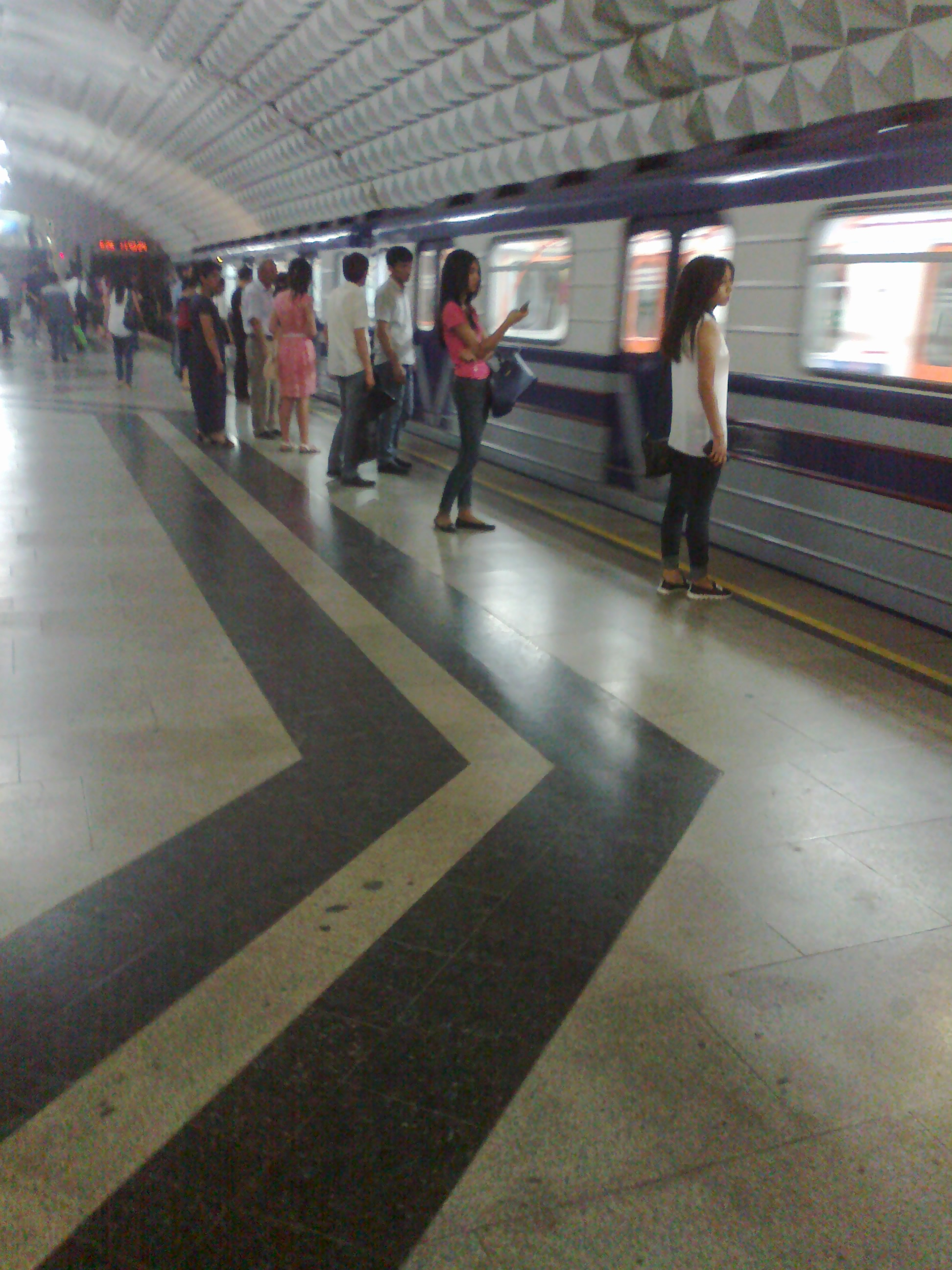 Modified 81-717/714 train arrives at Beruni station (Tashkent)